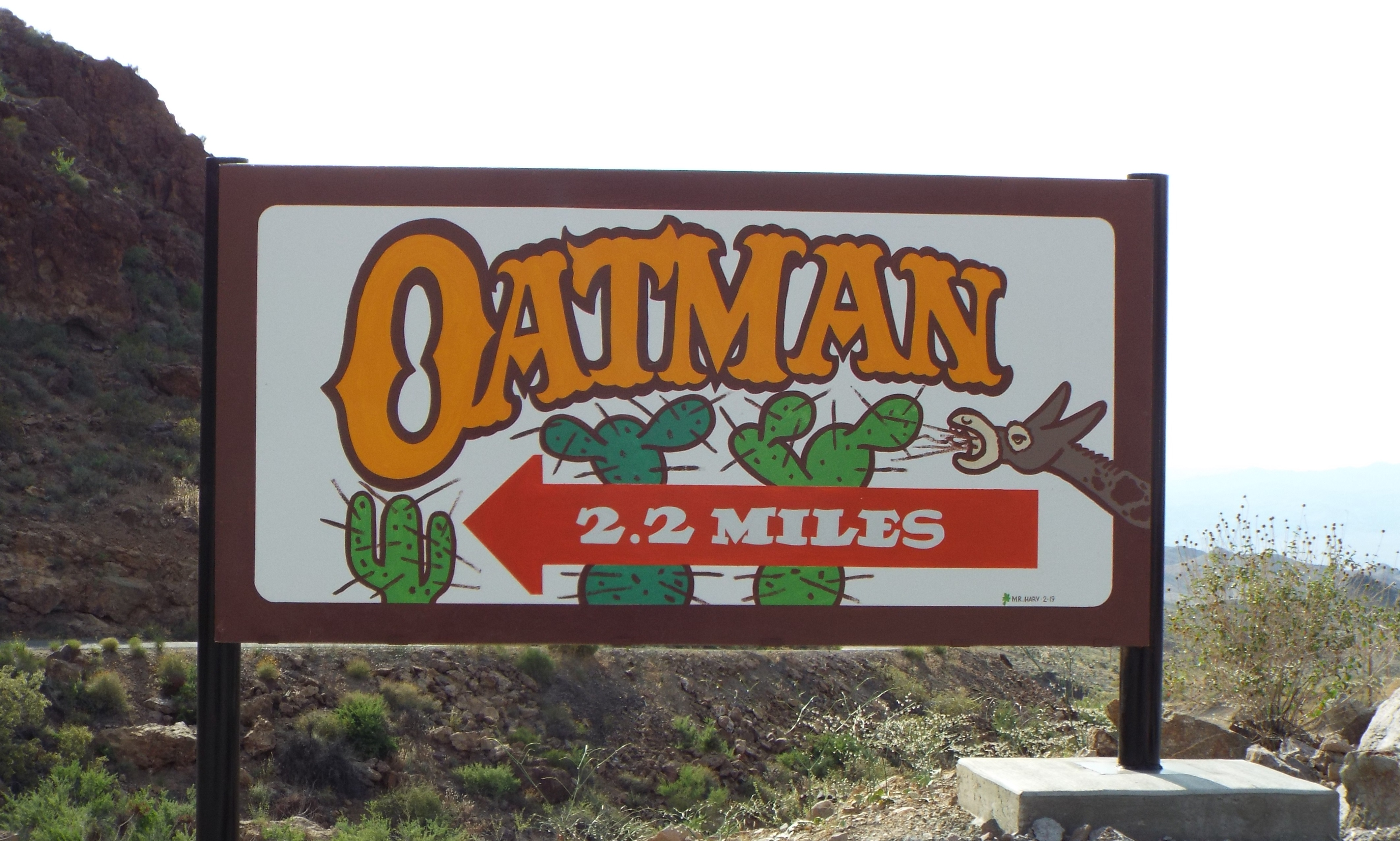 Oatman, Arizona sign